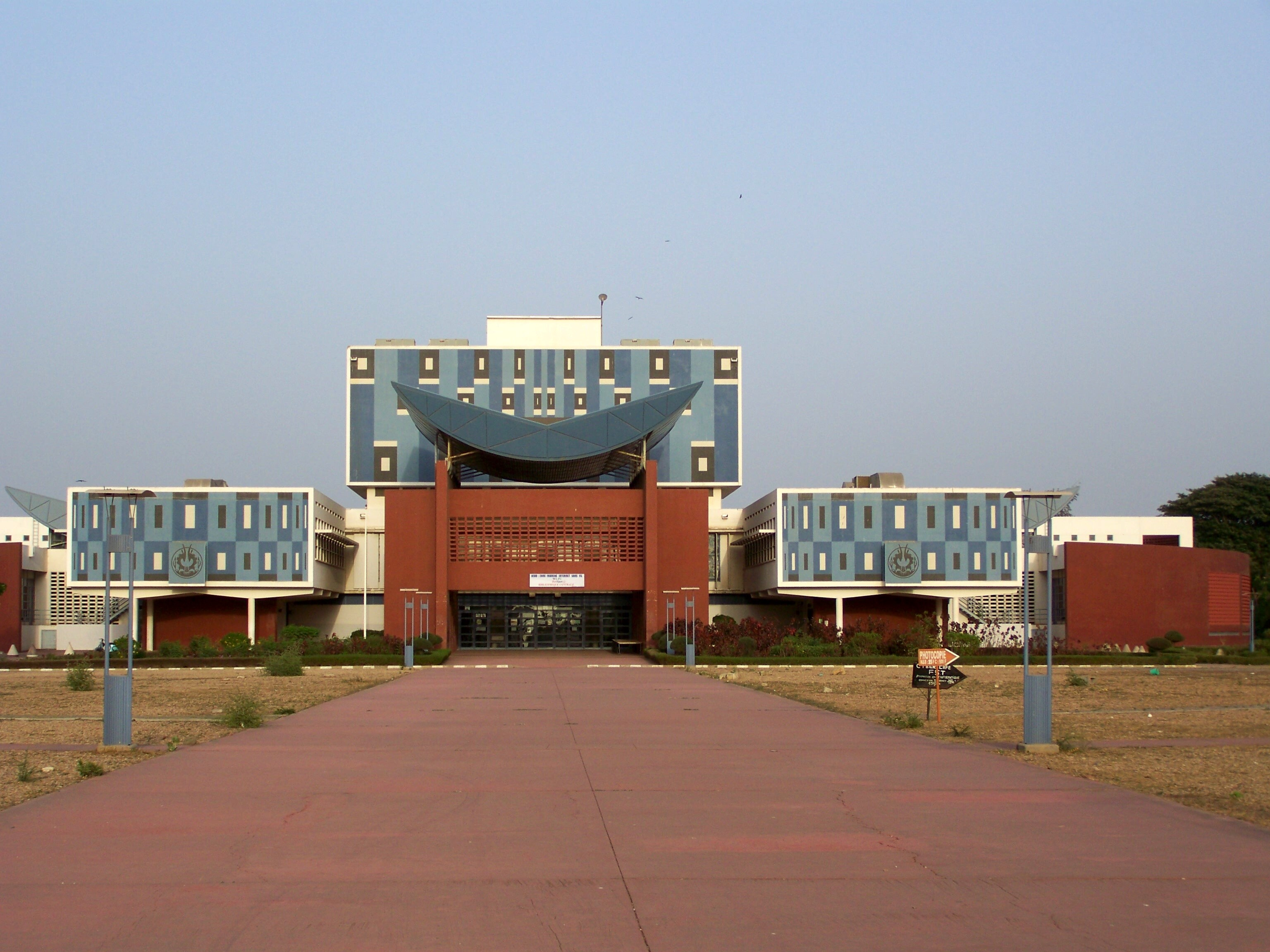 library university cheikh anta diop of Dakar ( senegal )